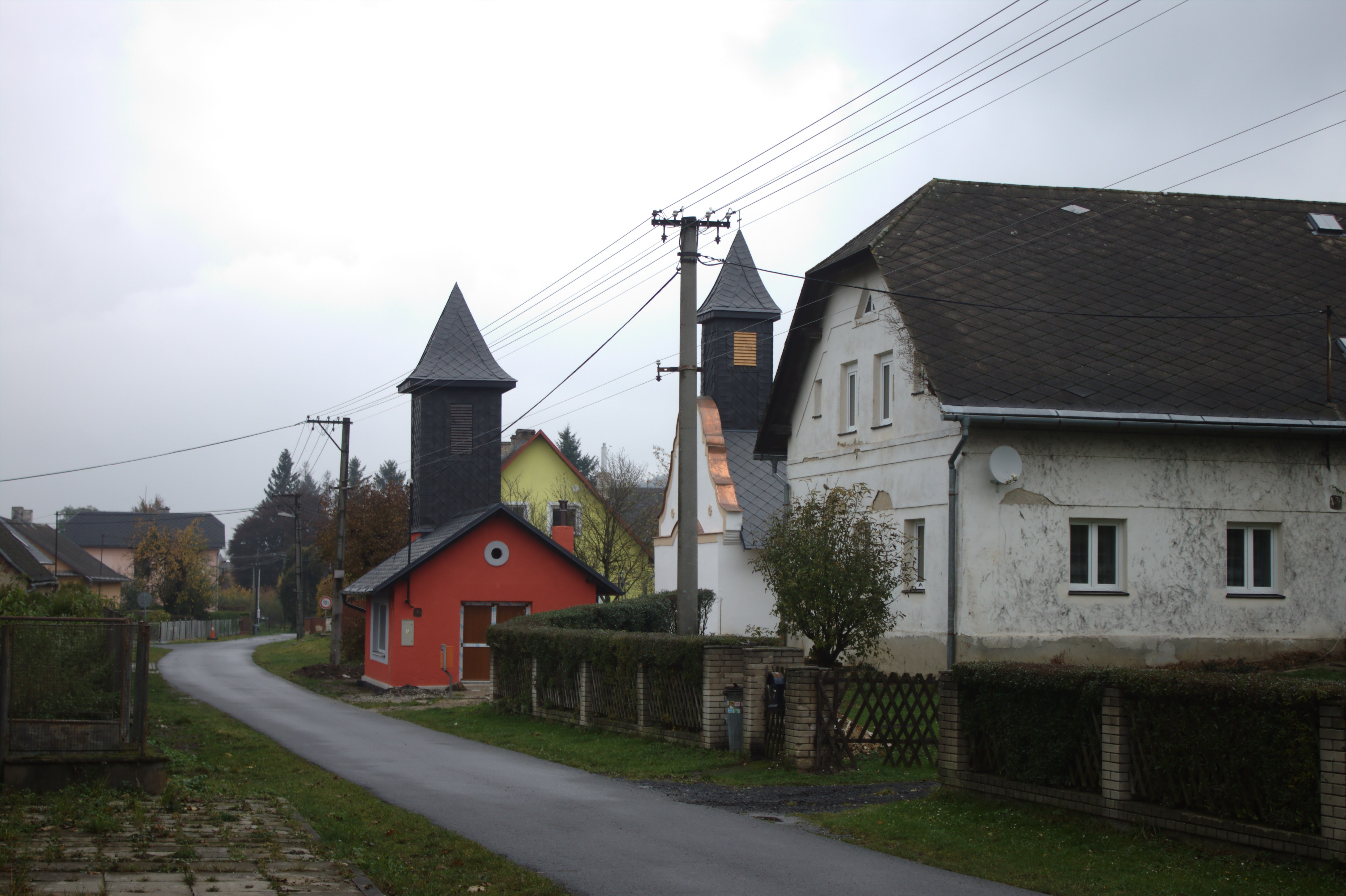 A road in central part of the village of Rudíkovy, Moravia-Silesia Region, CZ